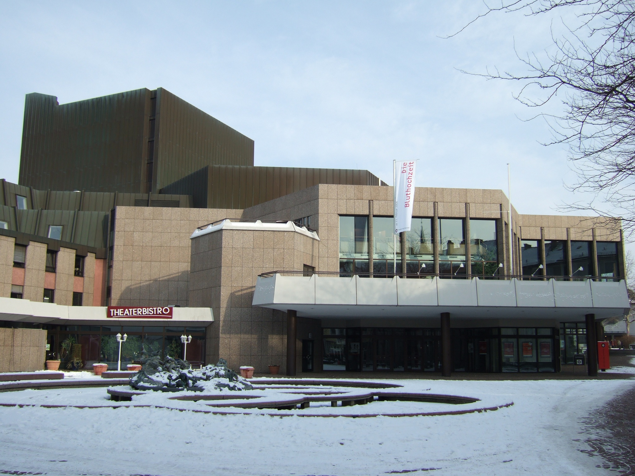 Municipal Theatre Of The City Heilbronn - Germany